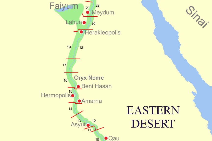 Map showing the Nome divisions in the ancient Egyptian Middle Kingdom.